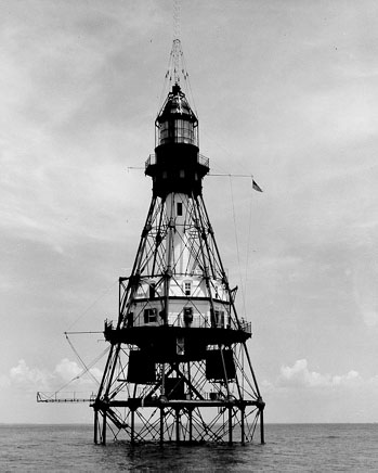 U.S. Coast Guard Archive Photo of Fowey Rocks Light, Florida